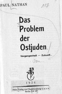 Paul Nathan, Das Problem der Ostjuden, Philo-Verlag, Berlin 1926